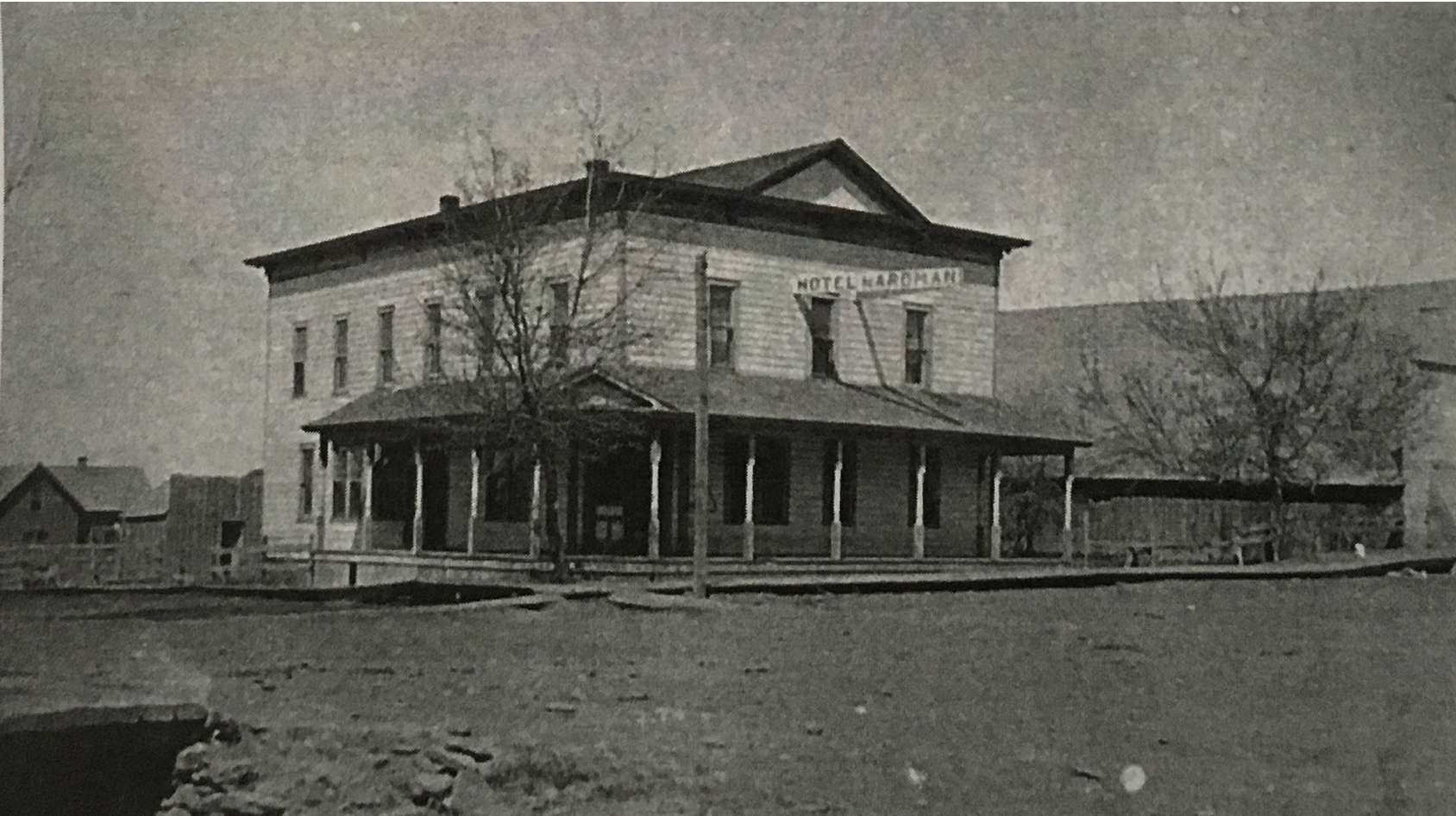 Picture of the Hardman Hotel in Hardman, Oregon.